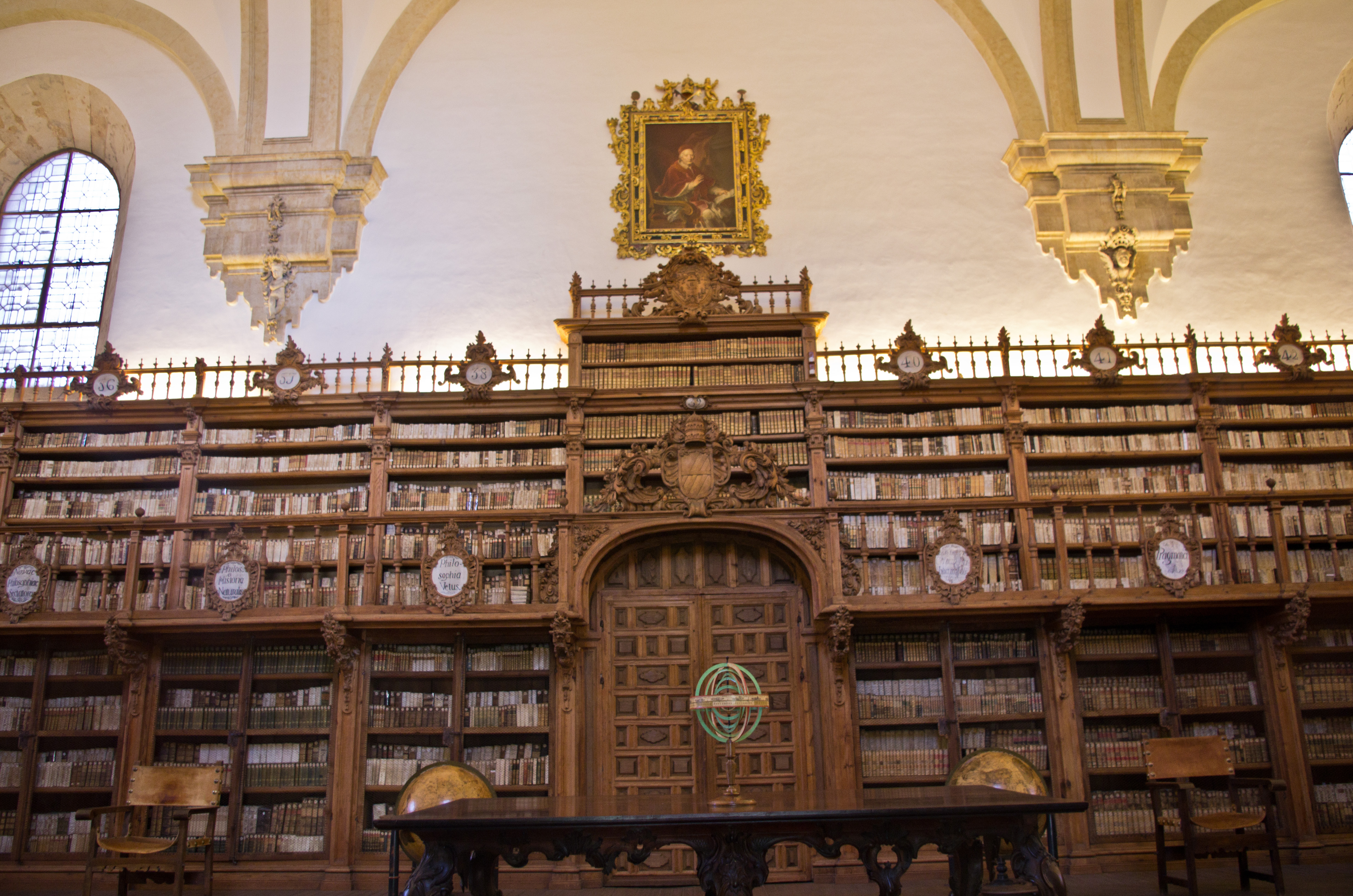 Old Library in University of Salamanca